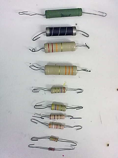 Several different kinds of resistors.